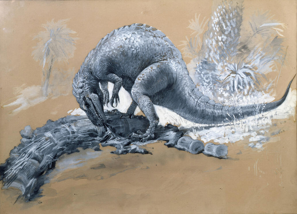 Allosaurus eating. by Charles R. Knight (1874-1953) from Scientific American 1907 United States